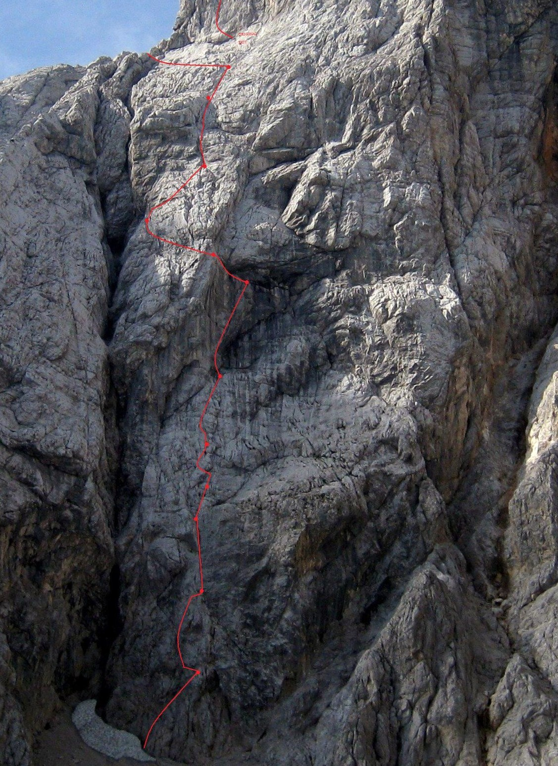 Direct route on the north face of Štajerska Rinka